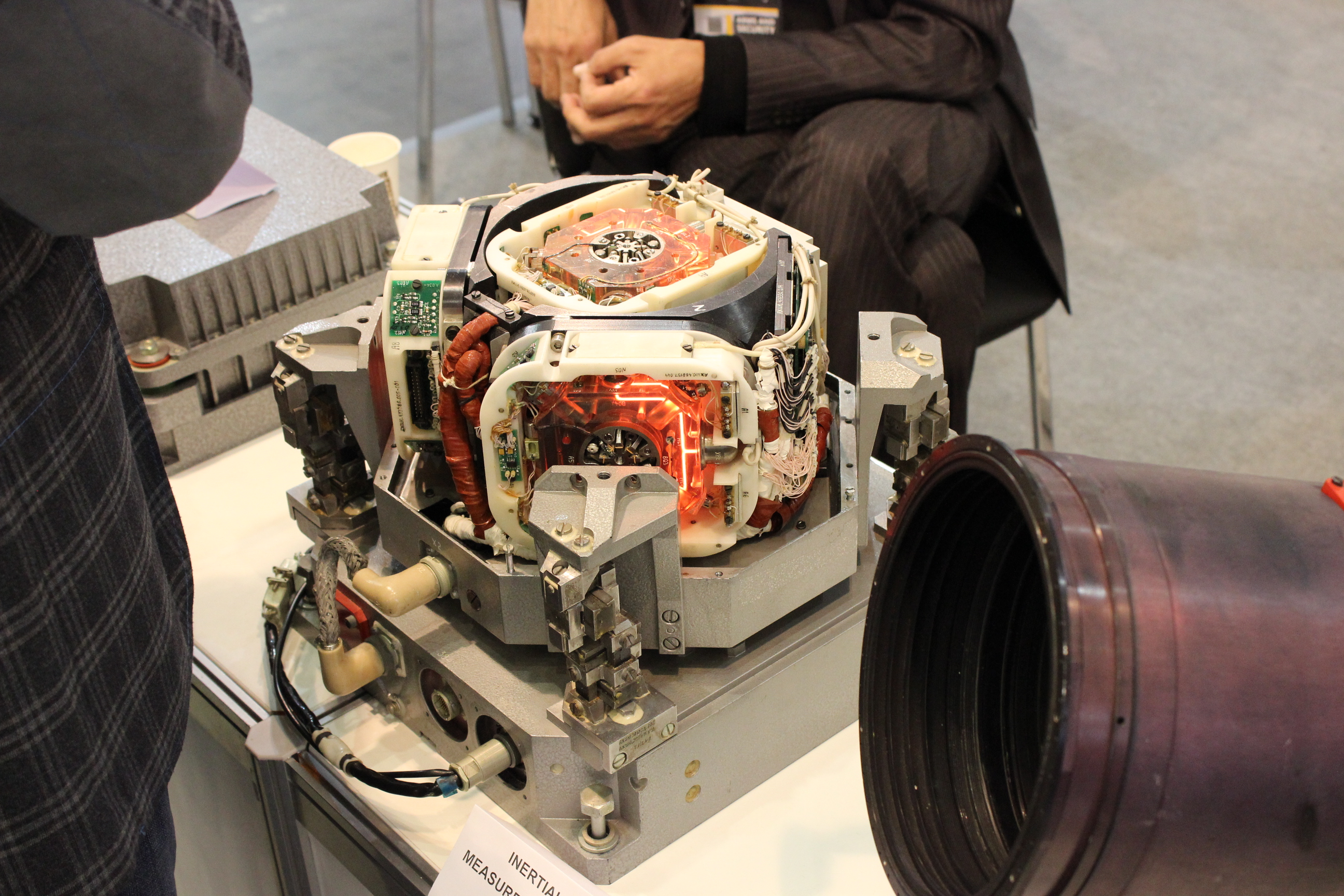 IMU-28 inertial measurement unit for spacecraft produced by Arsenal factory, Kyiv, Ukraine.